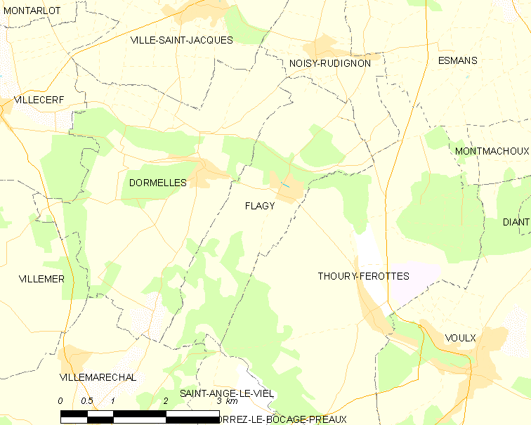 Map of French municipality Flagy